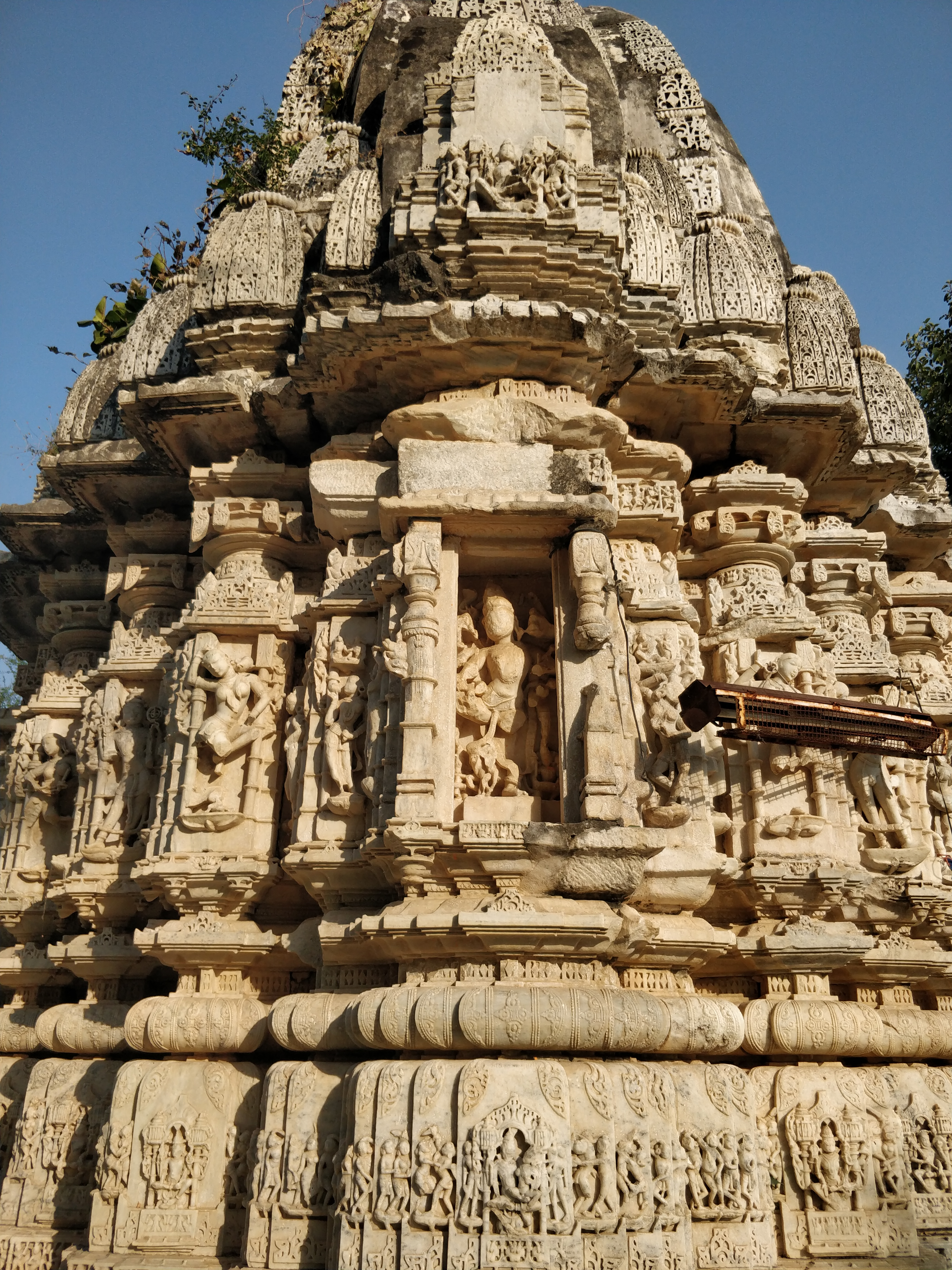 Natesh, Kumbharia Mahadev Temple, Back view, West side.